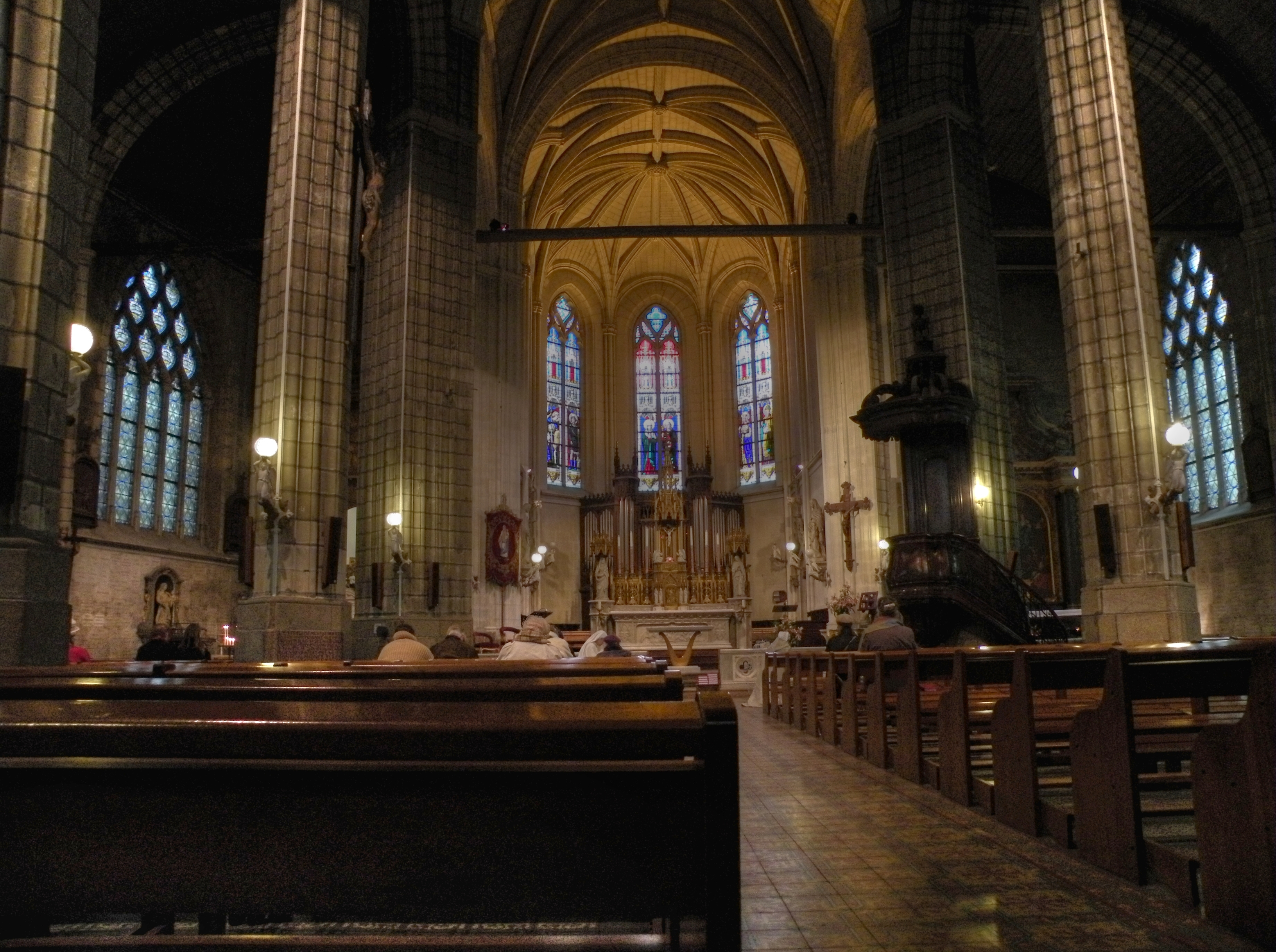 Nave of Church Sainte-Croix in Nantes.